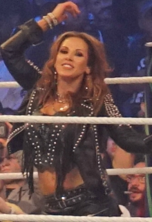 Mickie James at the WrestlemNia 34 even on April 8, 2018